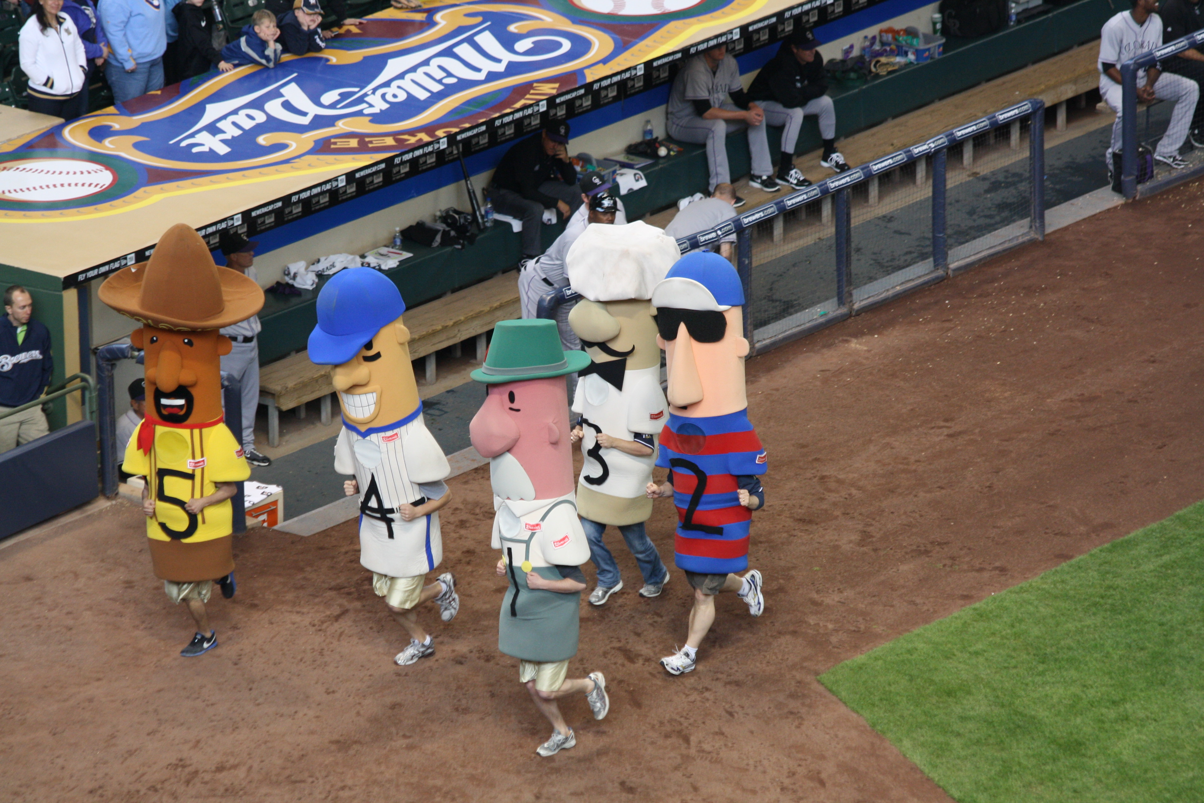 The sausages racing in the Sausage Race at Miller Park.